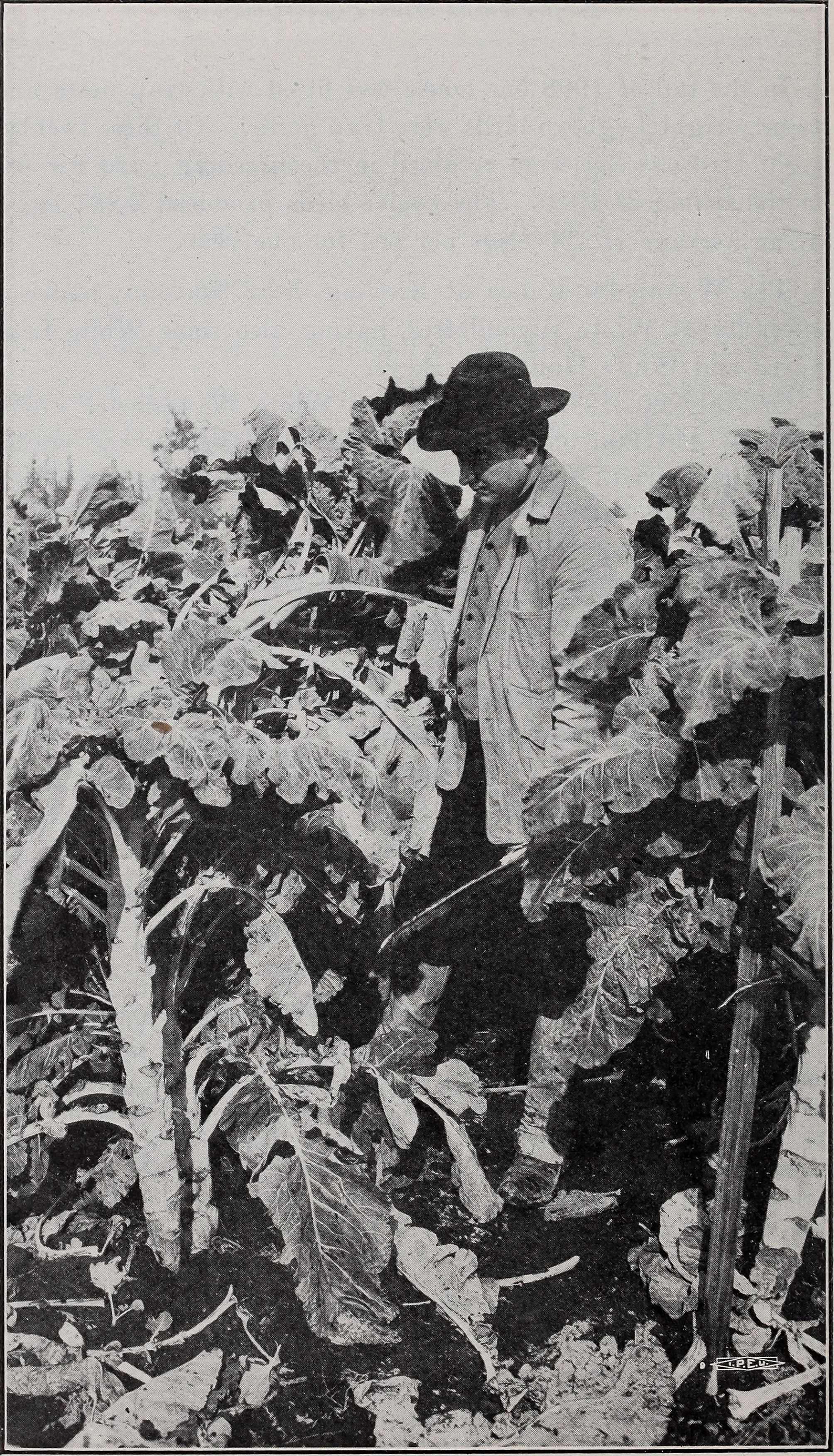 Title: Dairying, poultry and stock raising in Washington Year: 1912 (1910s) Authors: Washington (State). Bureau of Statistics and Immigration; Giles, Harry F Subjects: Dairying; Poultry; Livestock Publisher: Olympia, Wash. , E. L. Boardman, public printer Text Appearing Before Image: ' Text Appearing After Image: Thousand-Headed Kale at Puyallup Experiment Station. 66 tons per acre.